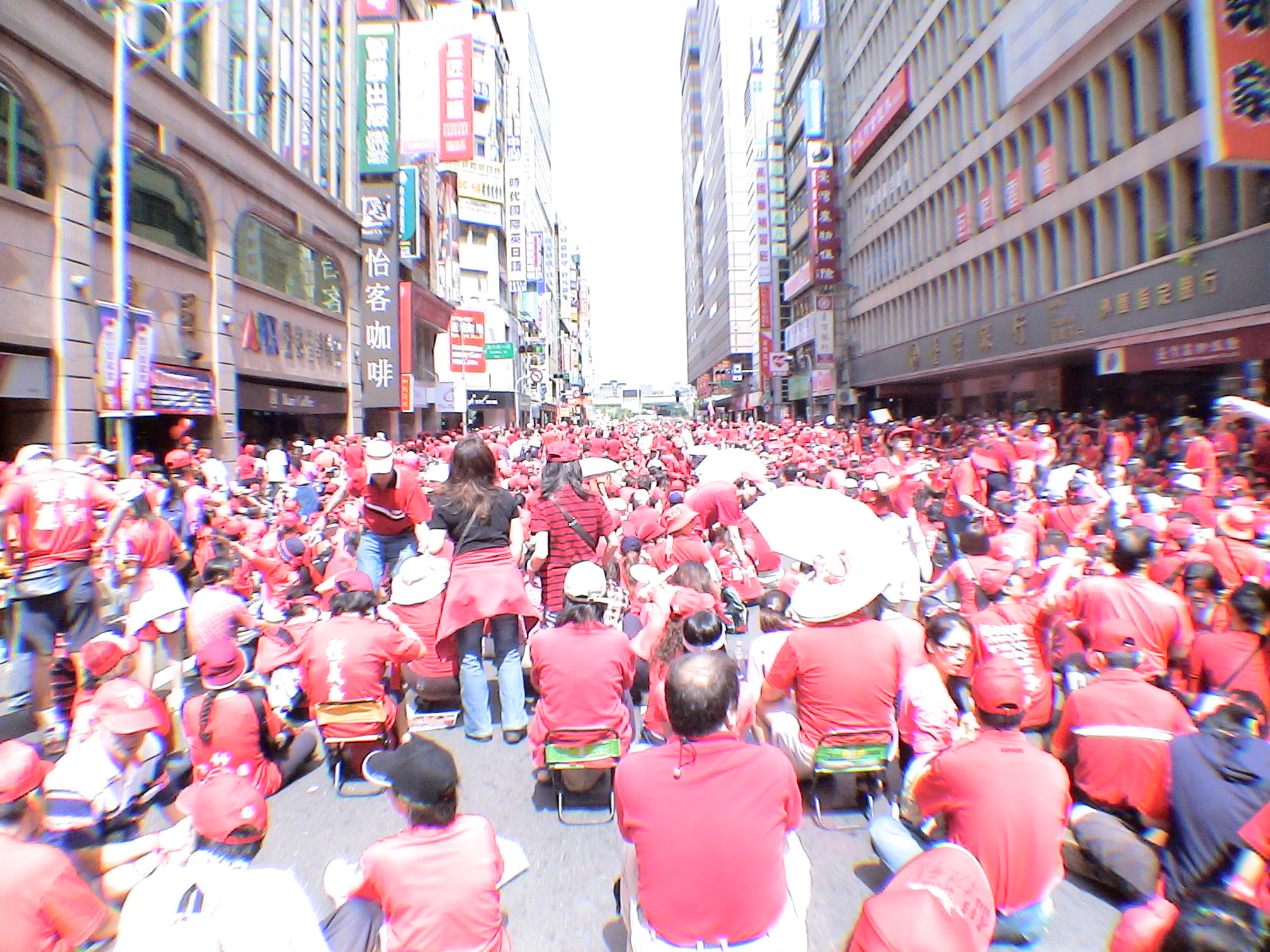 Hundreds of thousands of demonstrators was surrounding the presidential office in Taiwan, calling on President Chen Shui-bian to step down in Taiwan's National Day ,10/10.